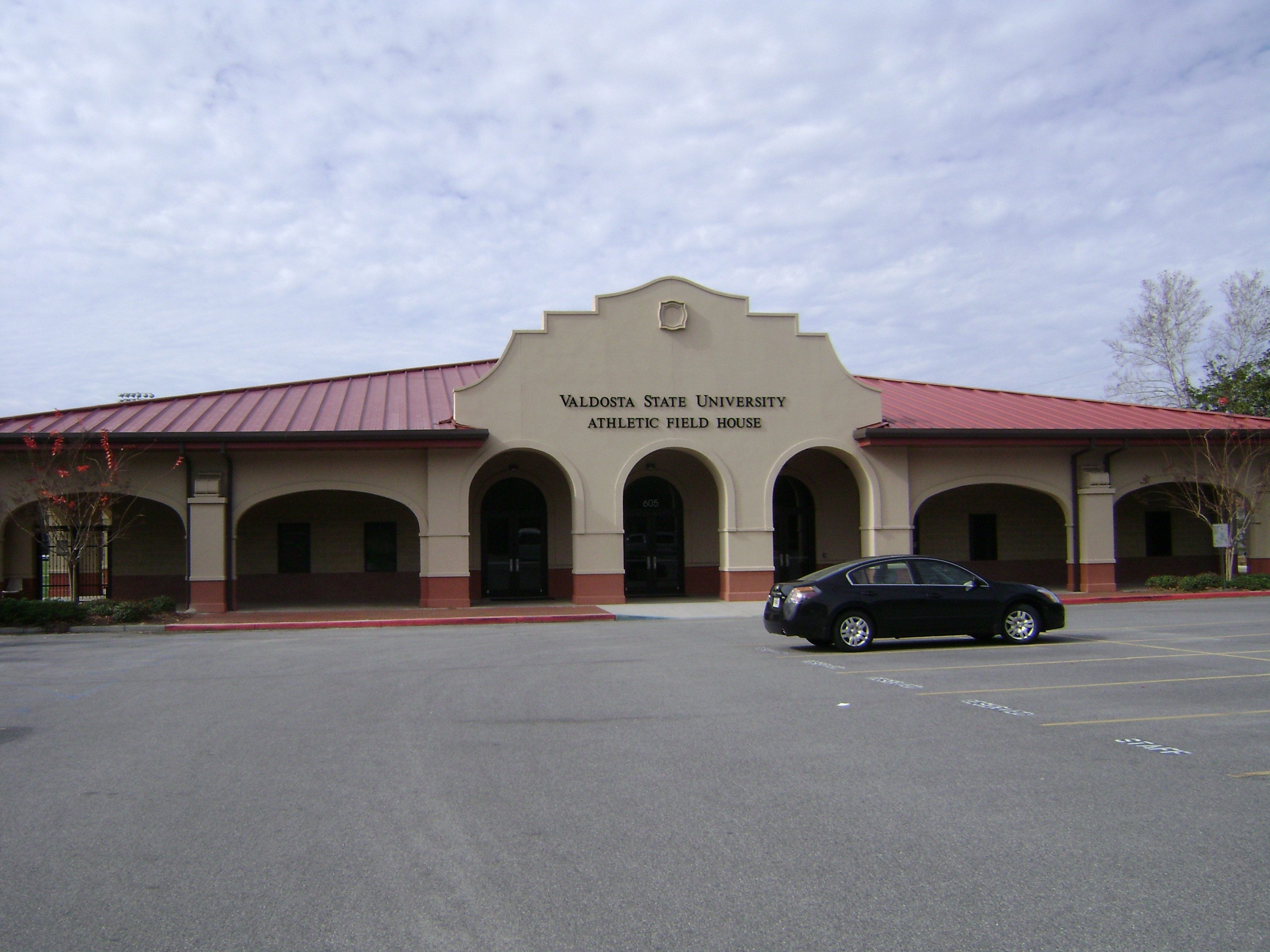 VSU Athletic Field House on Mary St